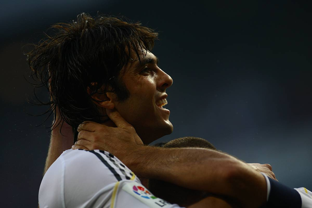 Football : Kaka of Real Madrid celebrates during the La Liga match between Real Madrid and Deportivo La Coruna at the Santiago Bernabeu stadium on August 29, 2009 in Madrid, Spain. (Photo by Tsutomu Takasu)